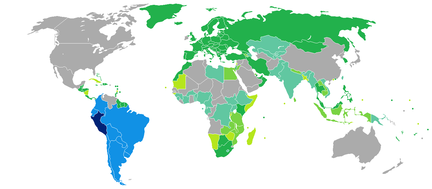 Visa requirements for Peruvian citizens Republic of Peru No passport required (travel with ID card) Visa free access Visa on arrival eVisa Visa available both on arrival or online Visa required